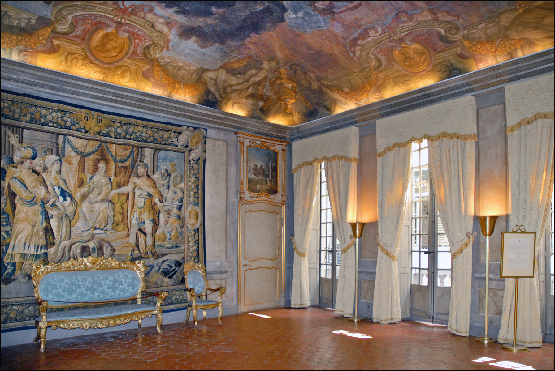 The "grand salon" (grand drawing room) ou "salon d'honneur" (drawing room of honour) of palais Lascaris in Nice, France.